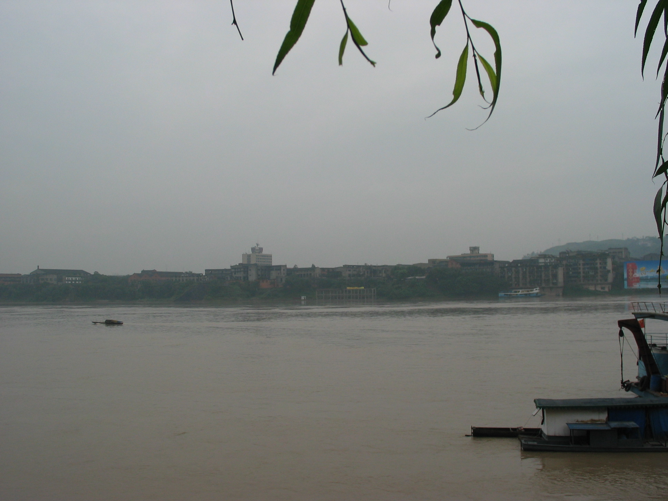 The Yangtze in Luzhou